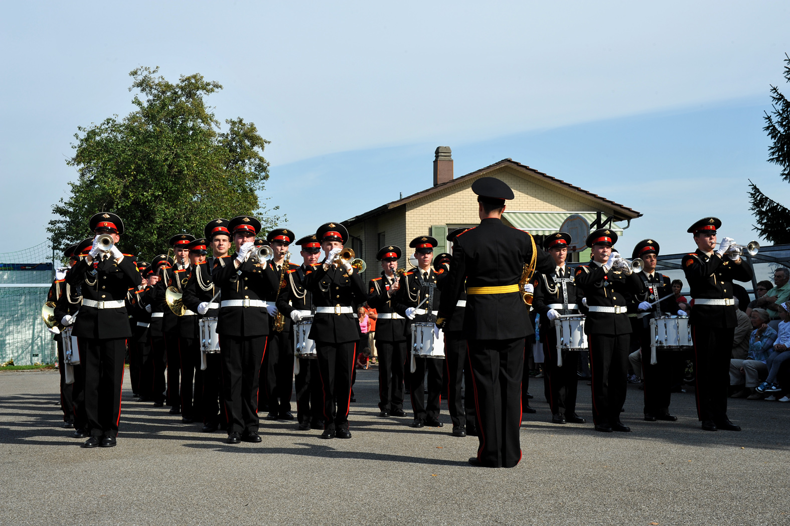 Presentation of Suvorov Cadets under the direction of Mikail Melnik in Inkwil; Berne, Switzerland.